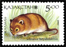 Desert Dormouse (Selevinia betpakdalaensis), a Kazakhstan stamp, 5, 1993